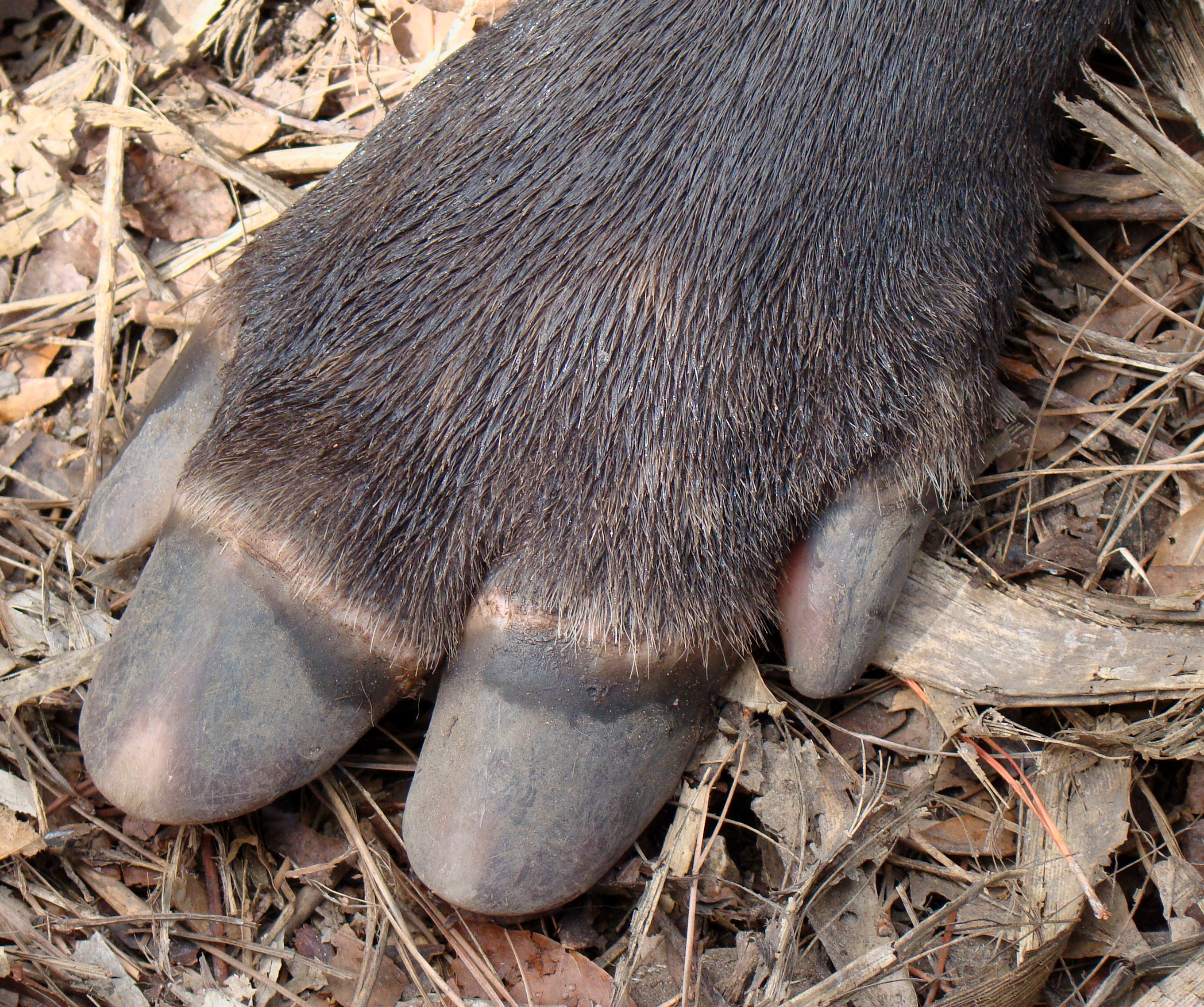 Close-up of front foot of Baird's Tapir specimen living in Belize Zoo. Tapirs have four toes on each front foot and three toes on each back foot.